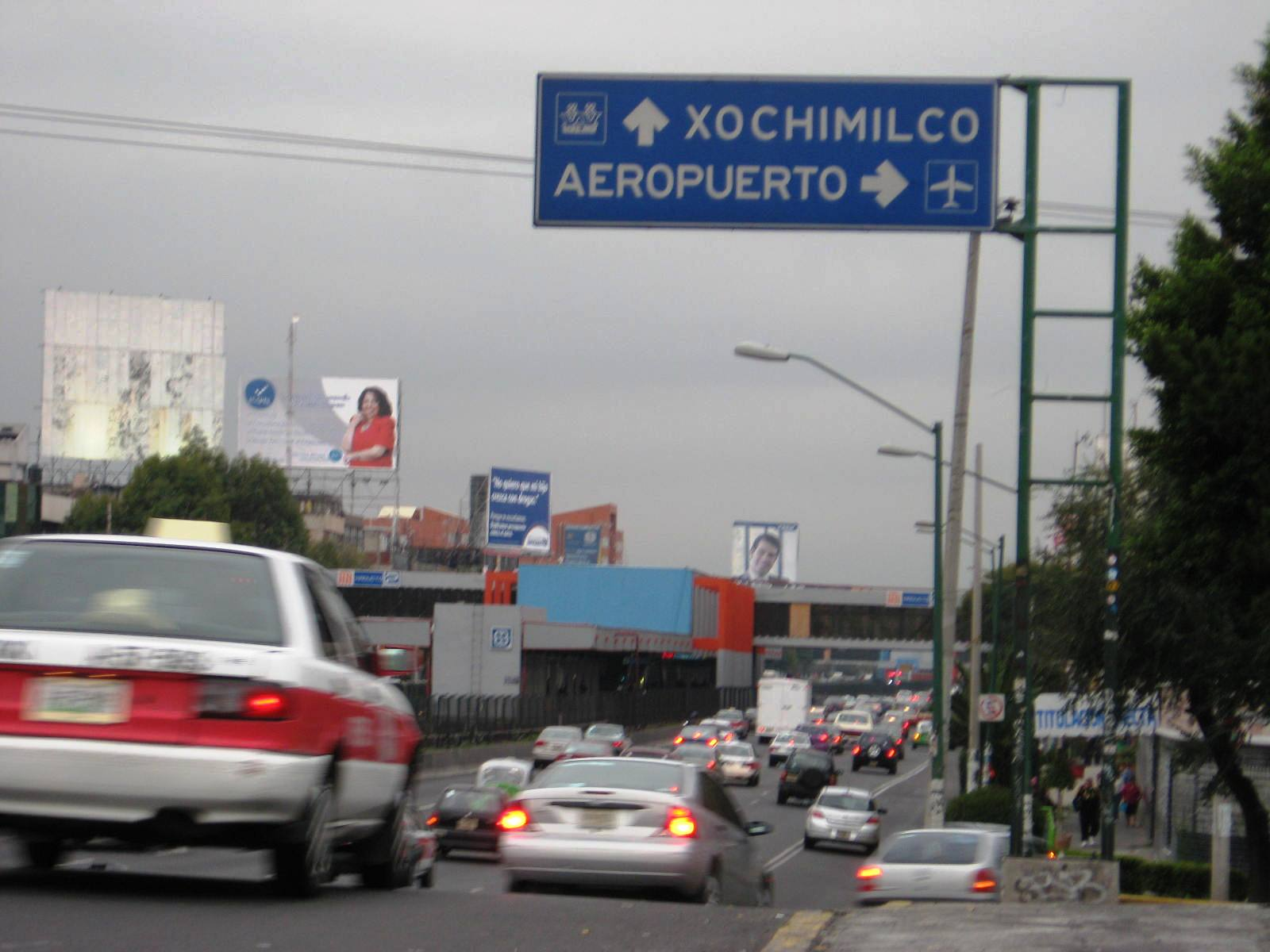 View of Metro station Viaducto on Line 2 of the Mexico City Metro System